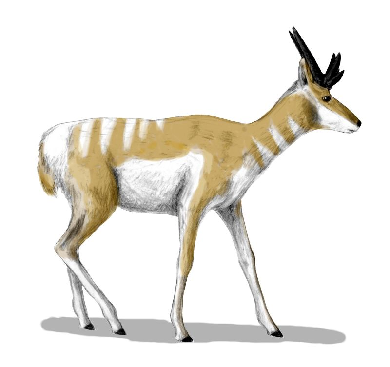 Osbornoceros osborni, a pronghorn from the Late Miocene of New Mexico, pencil drawing